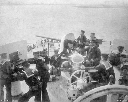 MACHINE GUN BATTERY IN ACTION IN THE FLYING DECK OF HMVS CERBERUS. At left is a Nordenfelt 4-barrel 1-inch gun, centre background is a QF 6 pounder (57 mm) Nordenfelt gun.